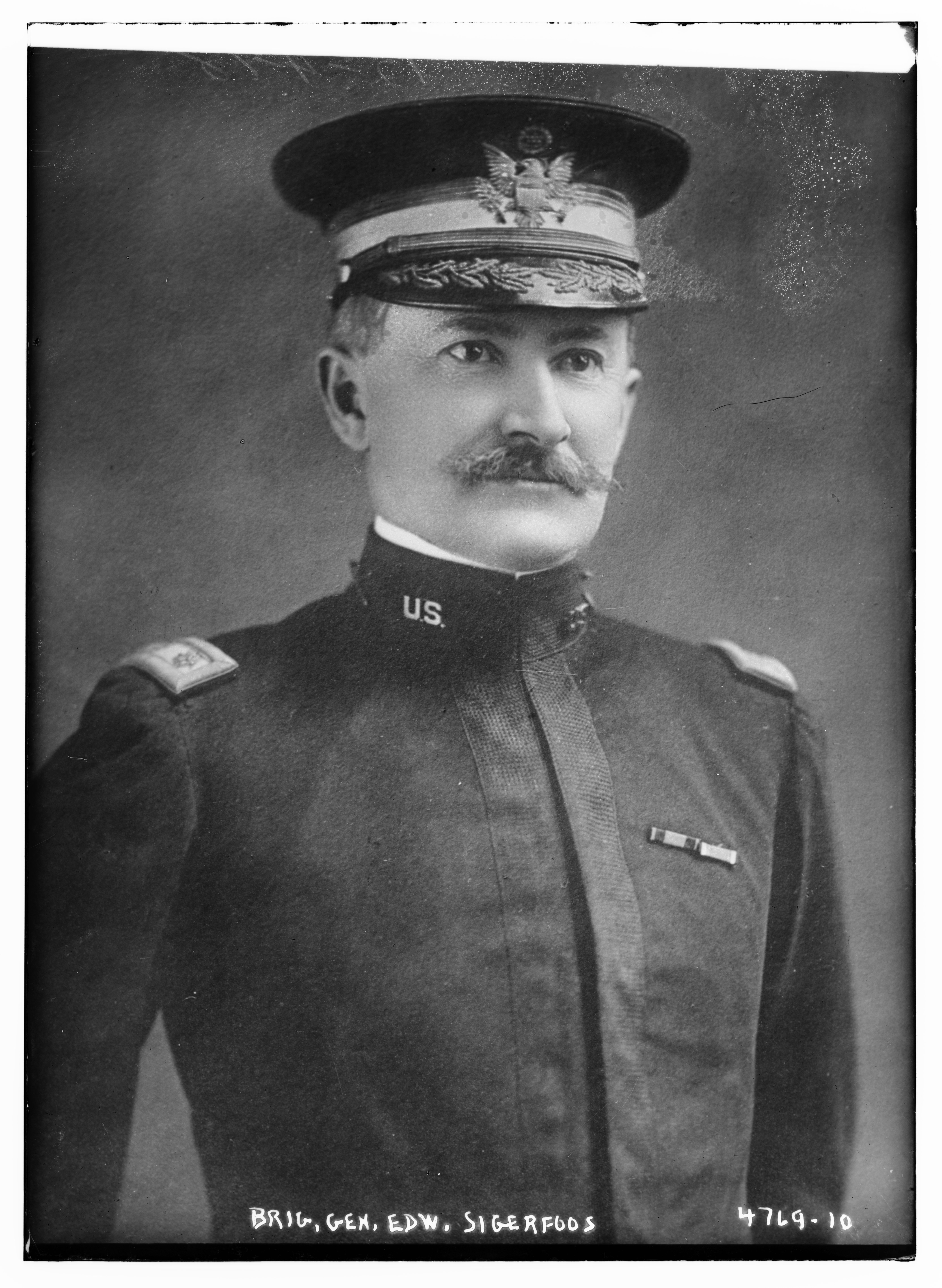 Title: Brig. Gen Edw. Sigerfoos Abstract/medium: 1 negative : glass ; 5 x 7 in. or smaller.